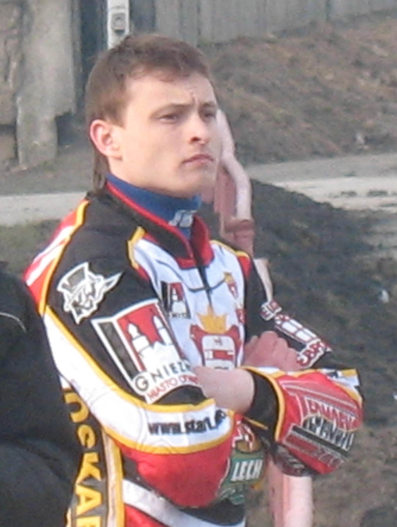 Andriy Karpov